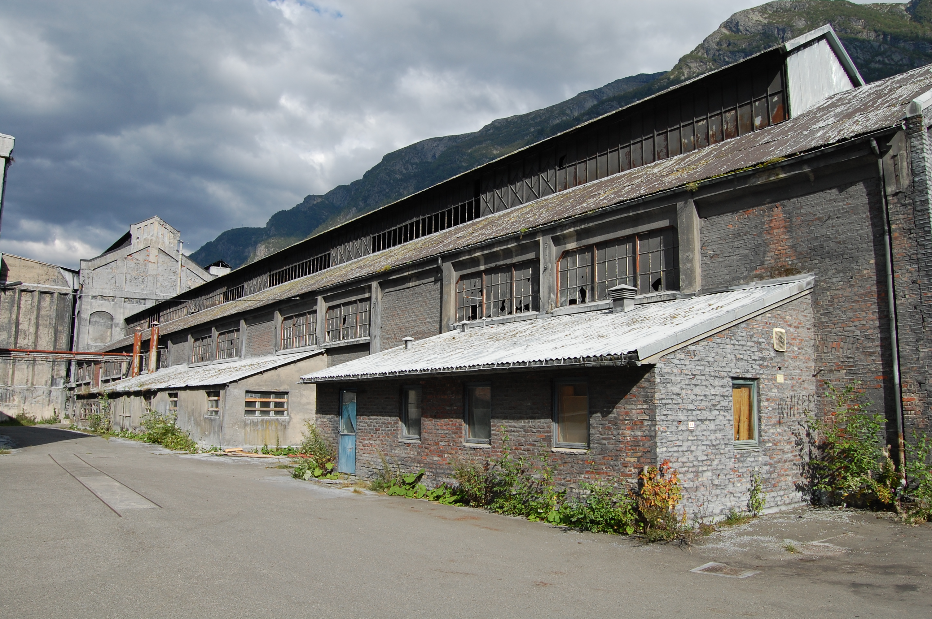 Silo and Furnace house I, North Western Cyanamide Company, Odda, Norway, 1907. Photo from 2010.